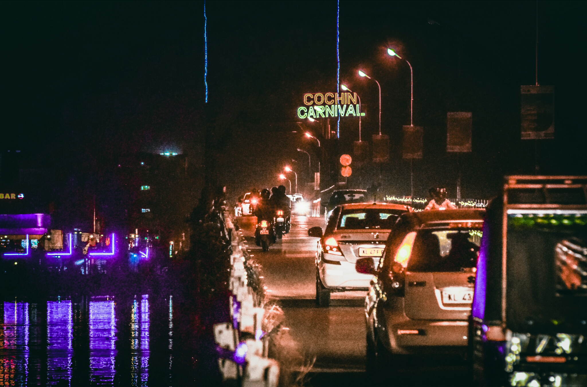 Cochin carnival a must attend event in kerala during the new year